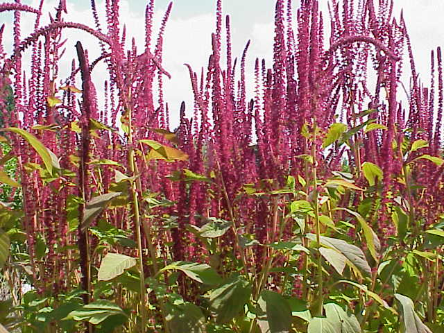 Species: Amaranthus cruentus Family: Amaranthaceae Image No. 2